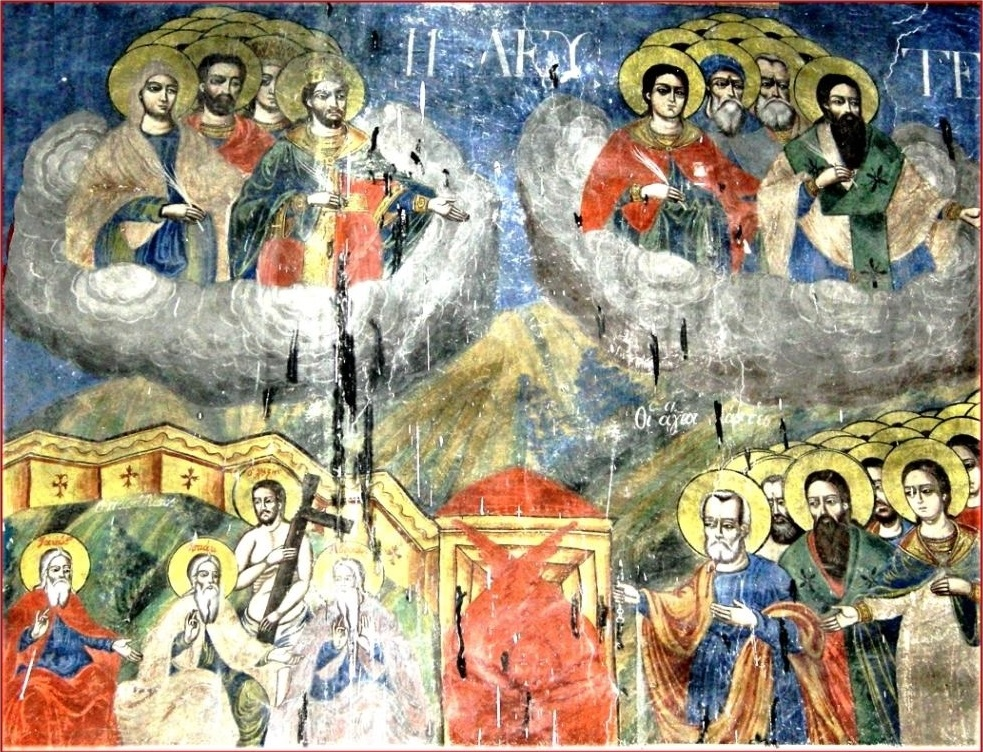 Paradise, fresco in Saint Athanasius Church in Melissotopos.